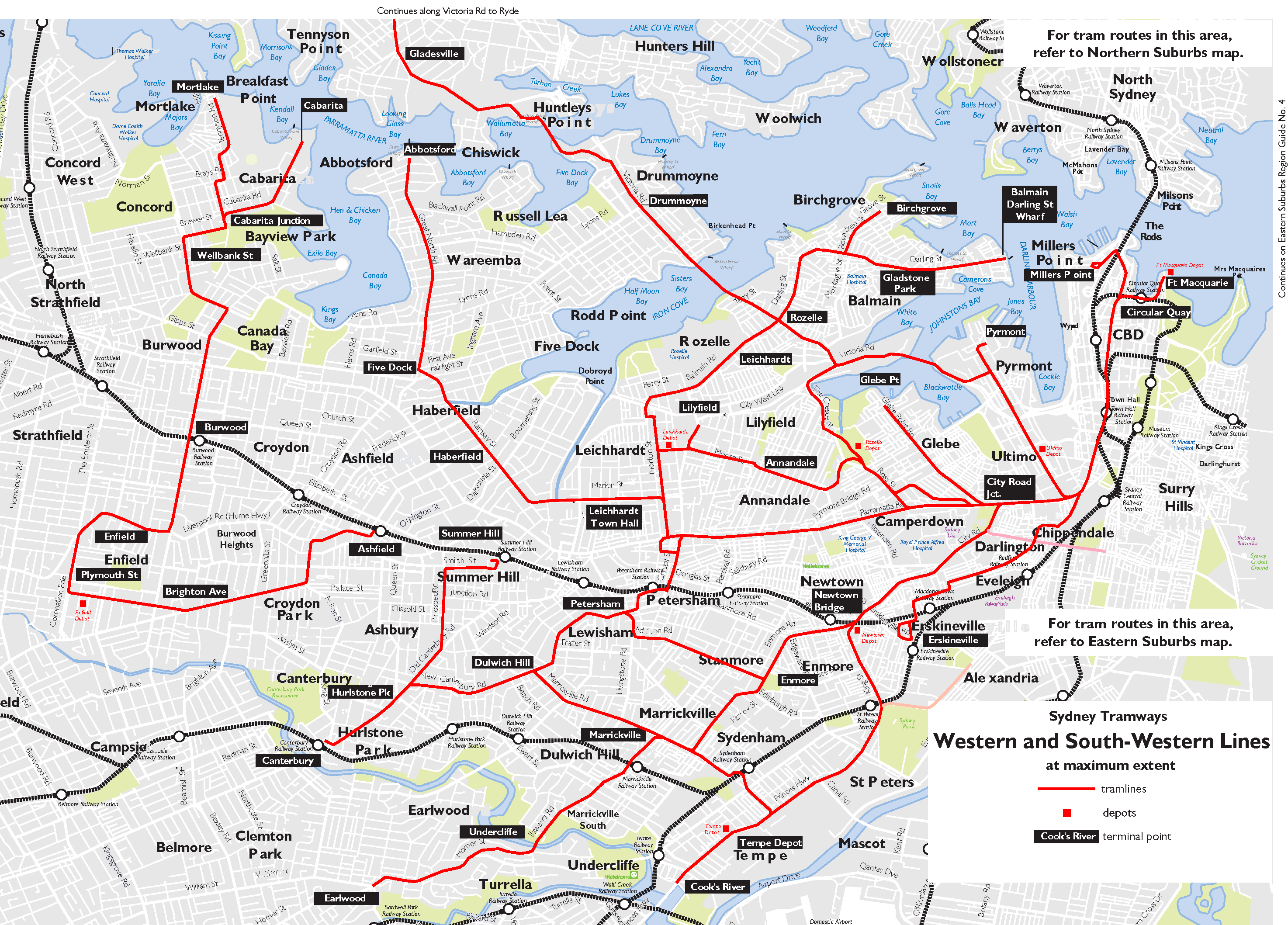 Map showing trams in the west and southwest of Sydney at maximum extent